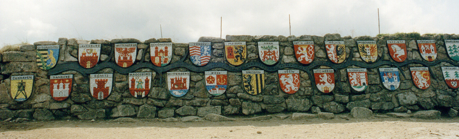 spring of the river Elbe, the wall near the spring with emblems the from the cities at the river Elbe picture taken by myself in summer 1998 license: GNU-FDL